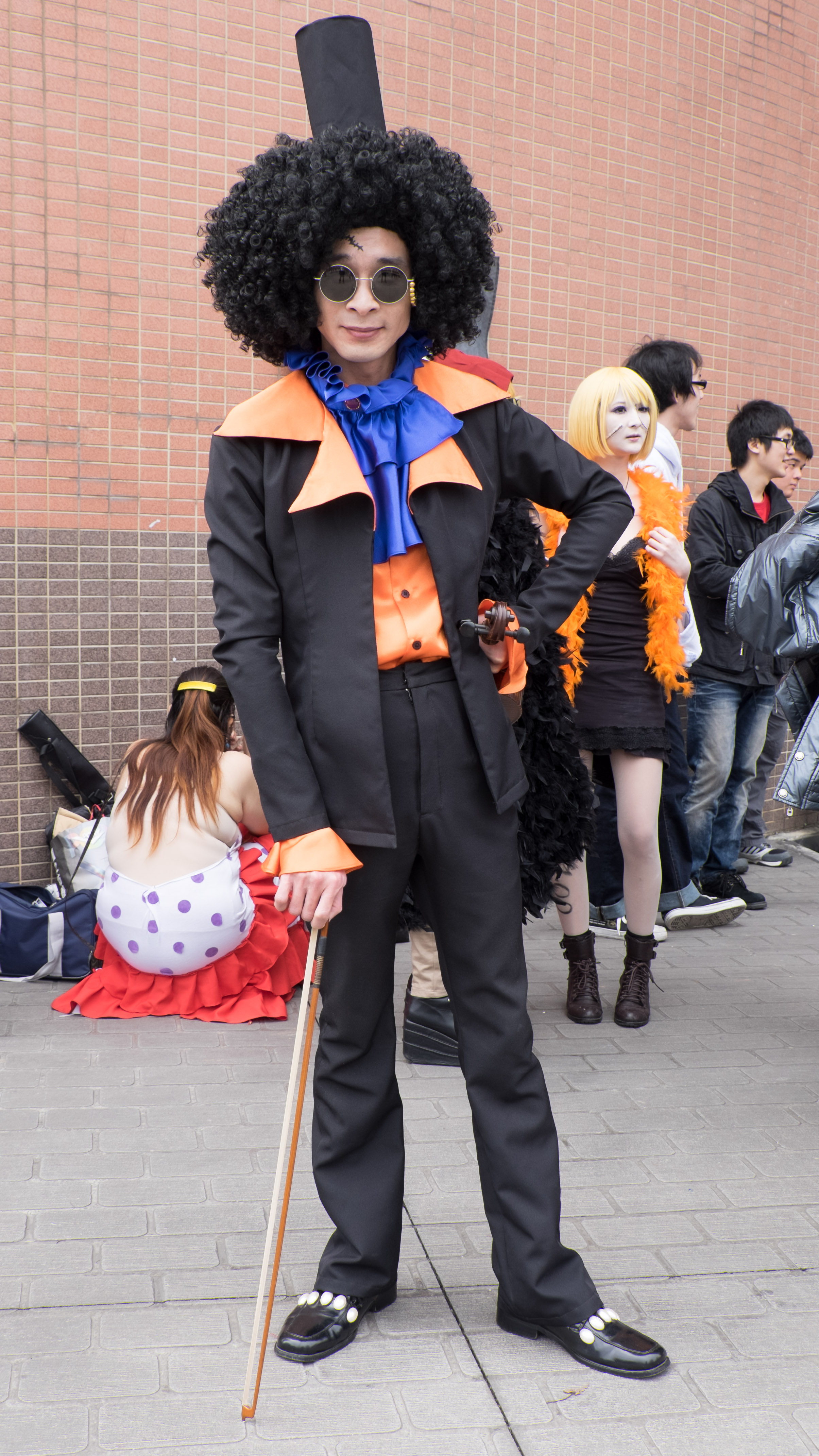 中文（台灣）: CWT39第一日下午，＜One Piece＞樂師布魯克Cosplayer。